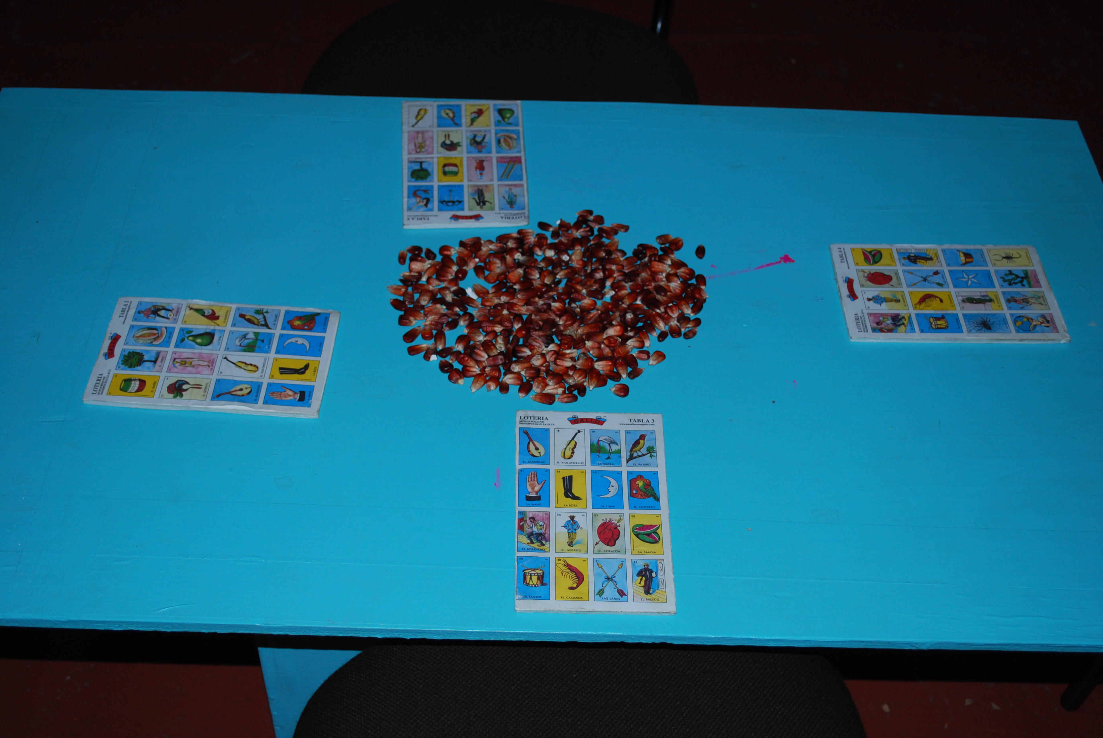 Set up of a game called "lotería" at the toy room of the Museo de Culturas Populares at the Centro Cultural Mexiquense in Toluca